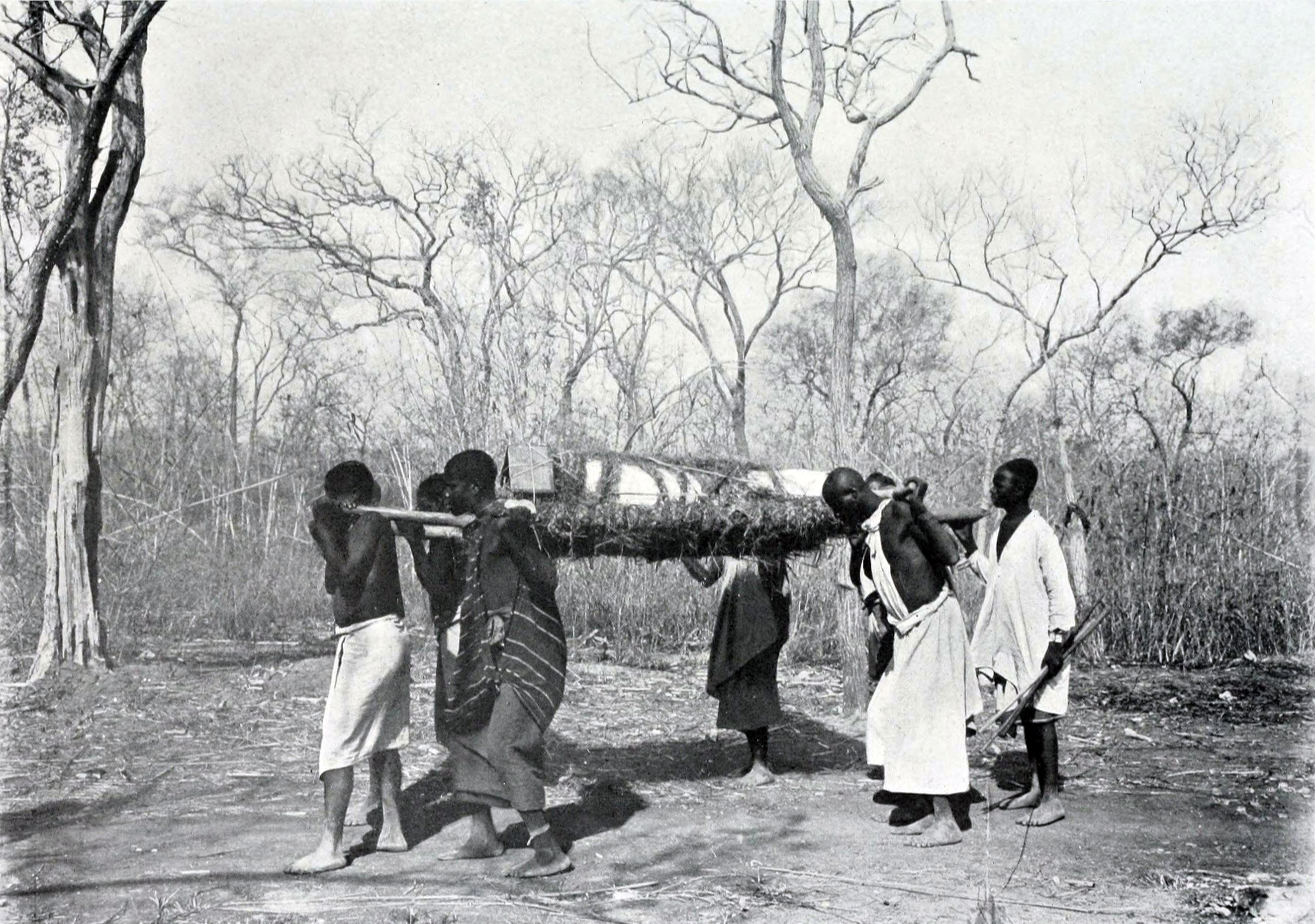 Title: Am Tendaguru : Leben und Wirken einer deutschen Forschungsexpedition zur Ausgrabung vorweltlicher Riesensaurier in Deutsch-Ostafrika Year: 1912 (1910s) Authors: Hennig, Edwin, b. 1882 Subjects: Dinosaurs; Paleontology Publisher: Stuttgart : E. Schweizerbart Text Appearing Before Image: ' Text Appearing After Image: '